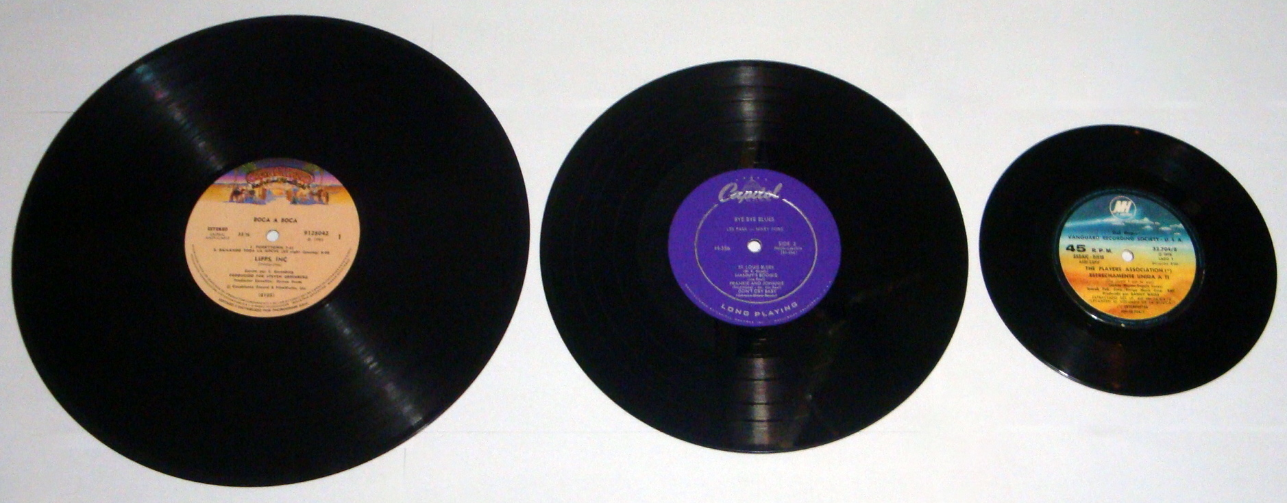 Vinyl discs of different sizes